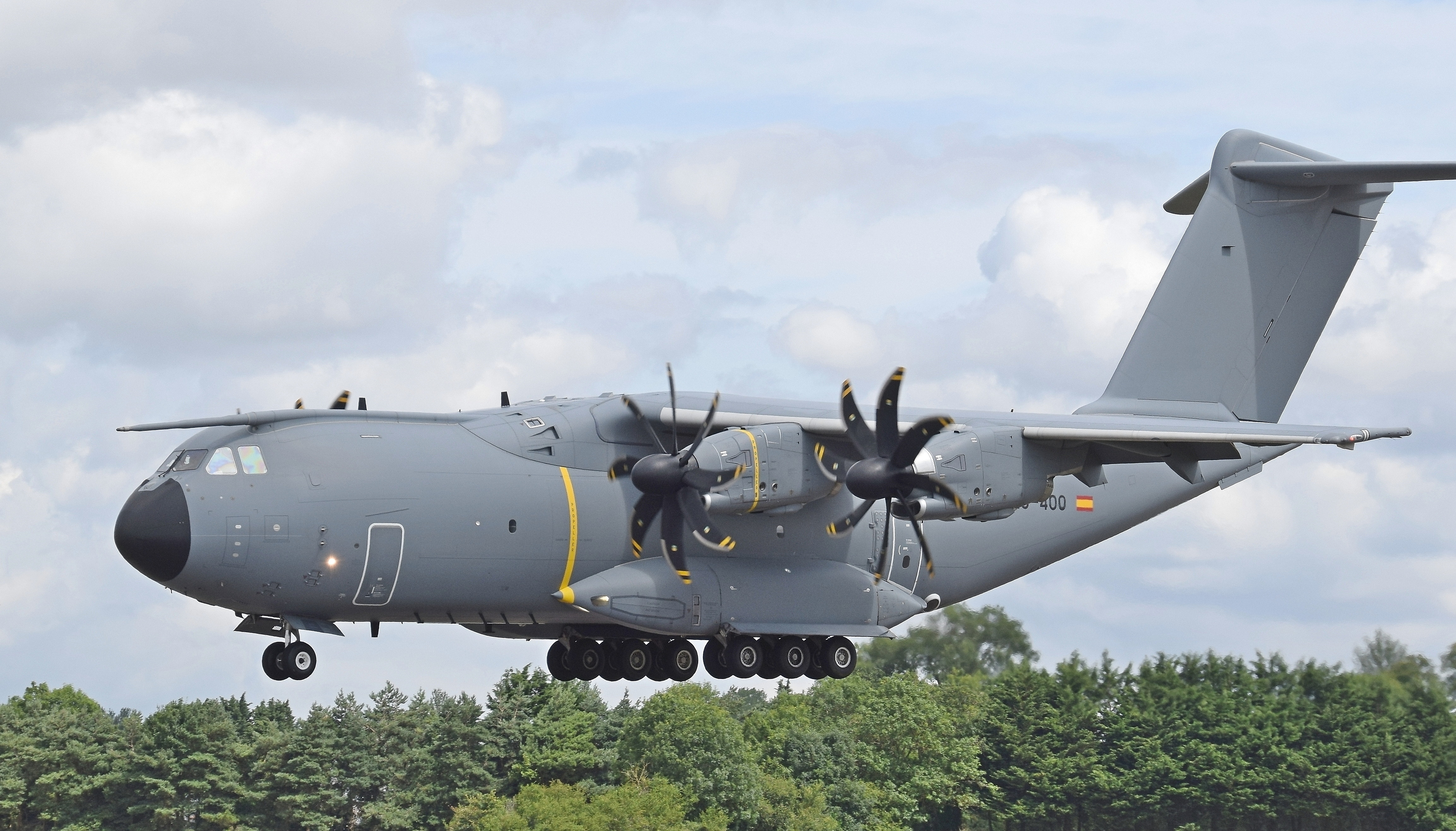 Airbus A400M Atlas (EC-400) of Airbus Military arrives at the 2019 Royal International Air Tattoo, RAF Fairford, England. Note that the file name is wrong in saying this aircraft belongs to the Spanish Air Force. Stupidly I thought the rear fuselage logo was Spanish Air Force colours.